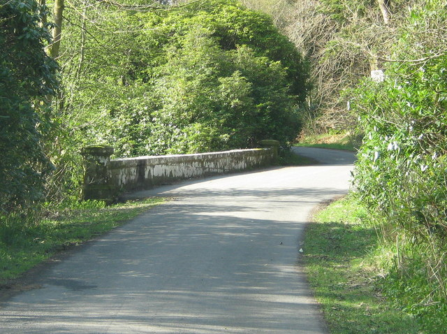 Bridge over the River Doon This bridge carries the main driveway to Craigengillan House over the River Doon.